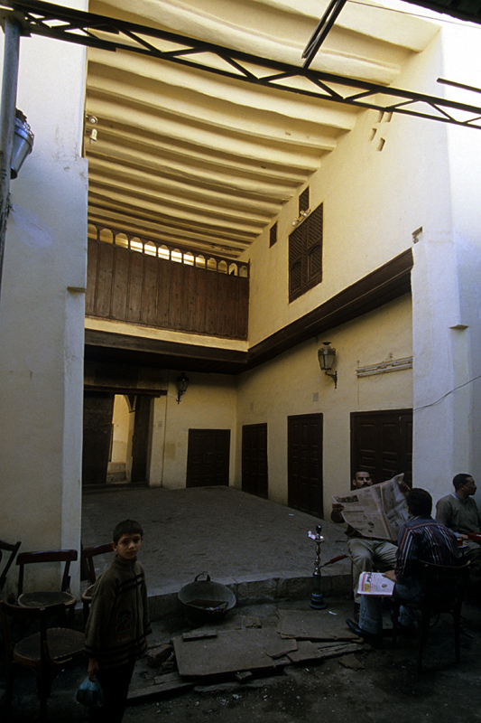 Entrance of the Wikala of Shalabi, el-Salam college, Asyut, Egypt